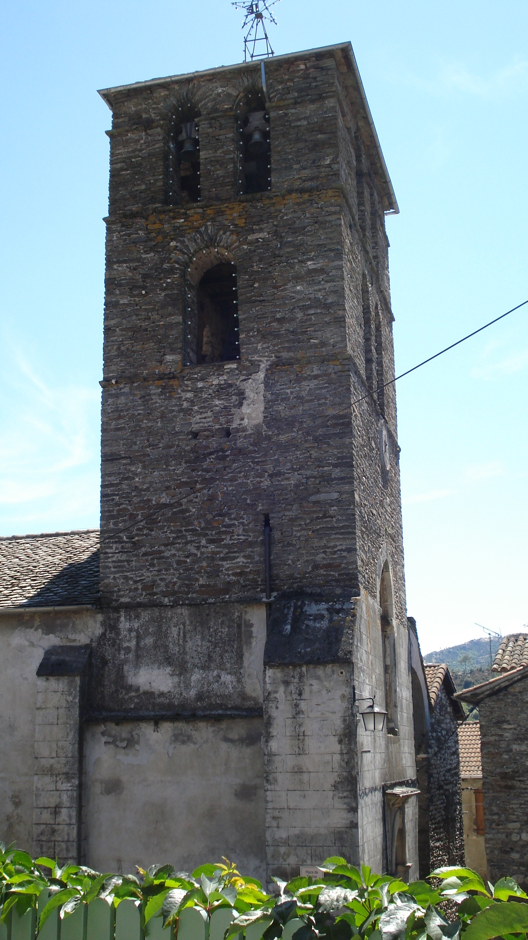 the church of Saint-Étienne-Vallée-Française (Lozère)